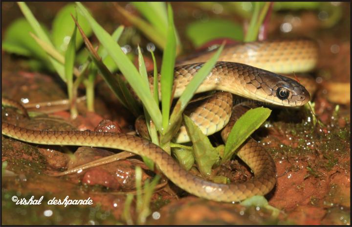 सातारा येथील दुर्मिळ साप